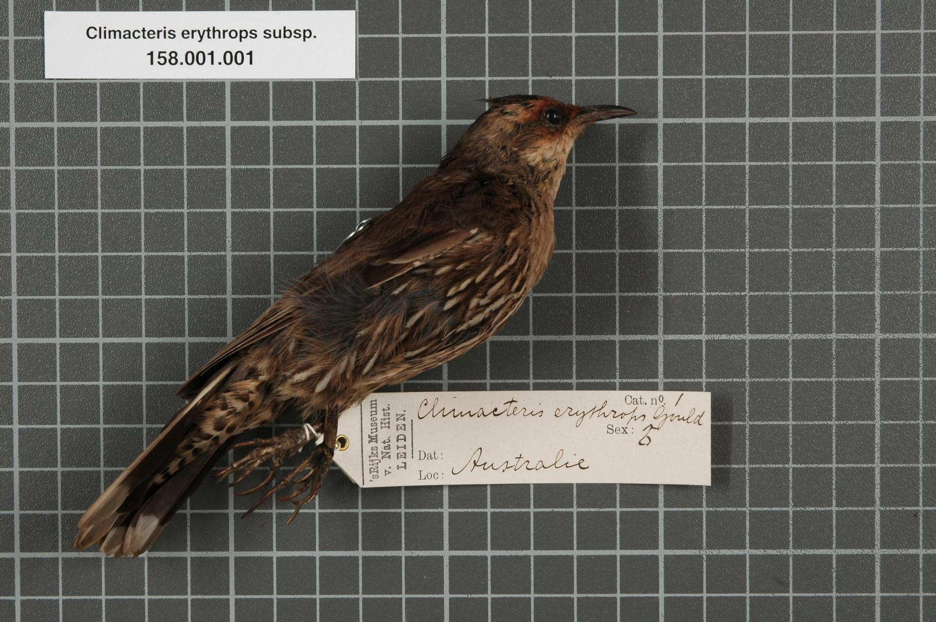 Climacteris erythrops subsp.